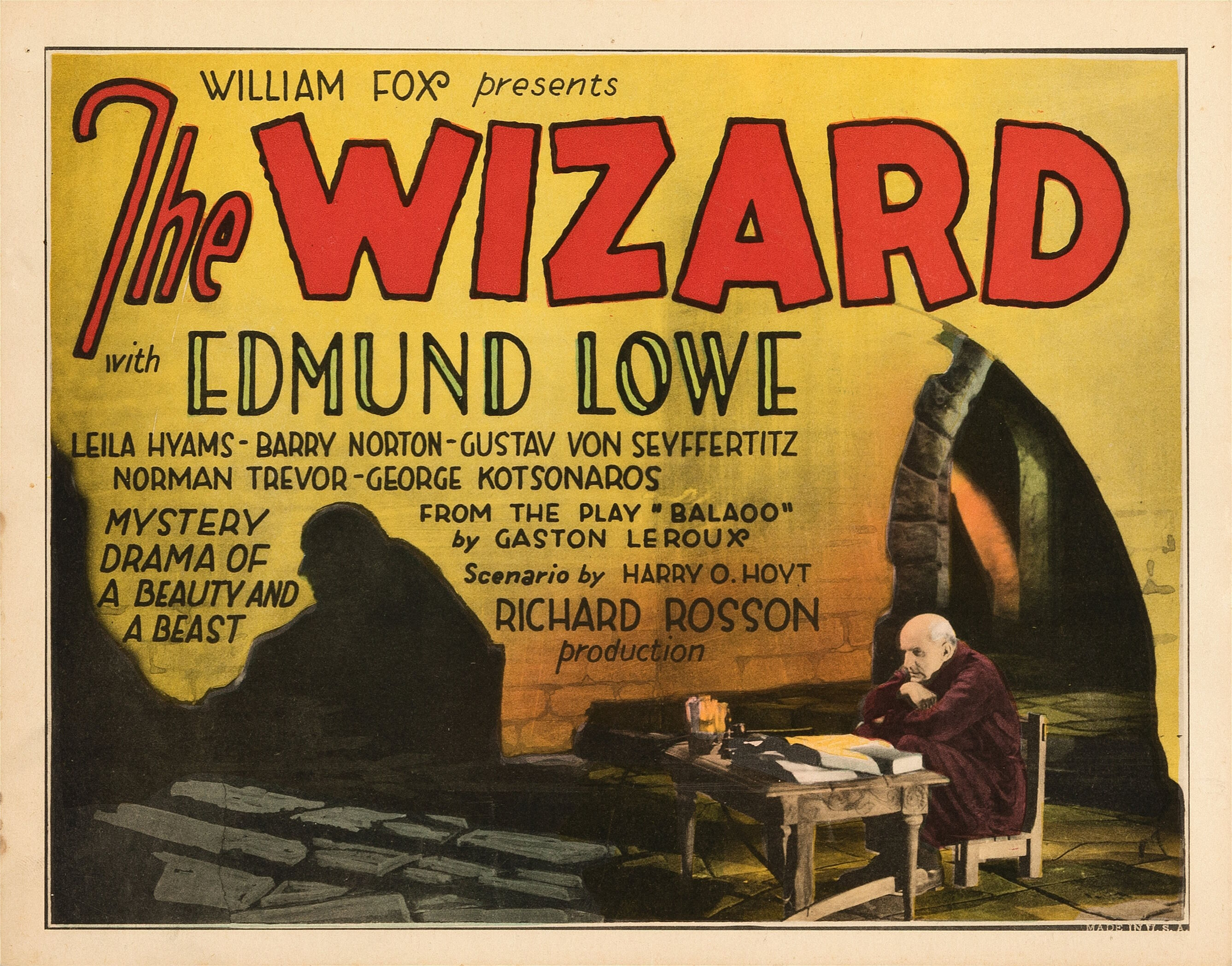 Lobby card for the American horror film The Wizard (1927).